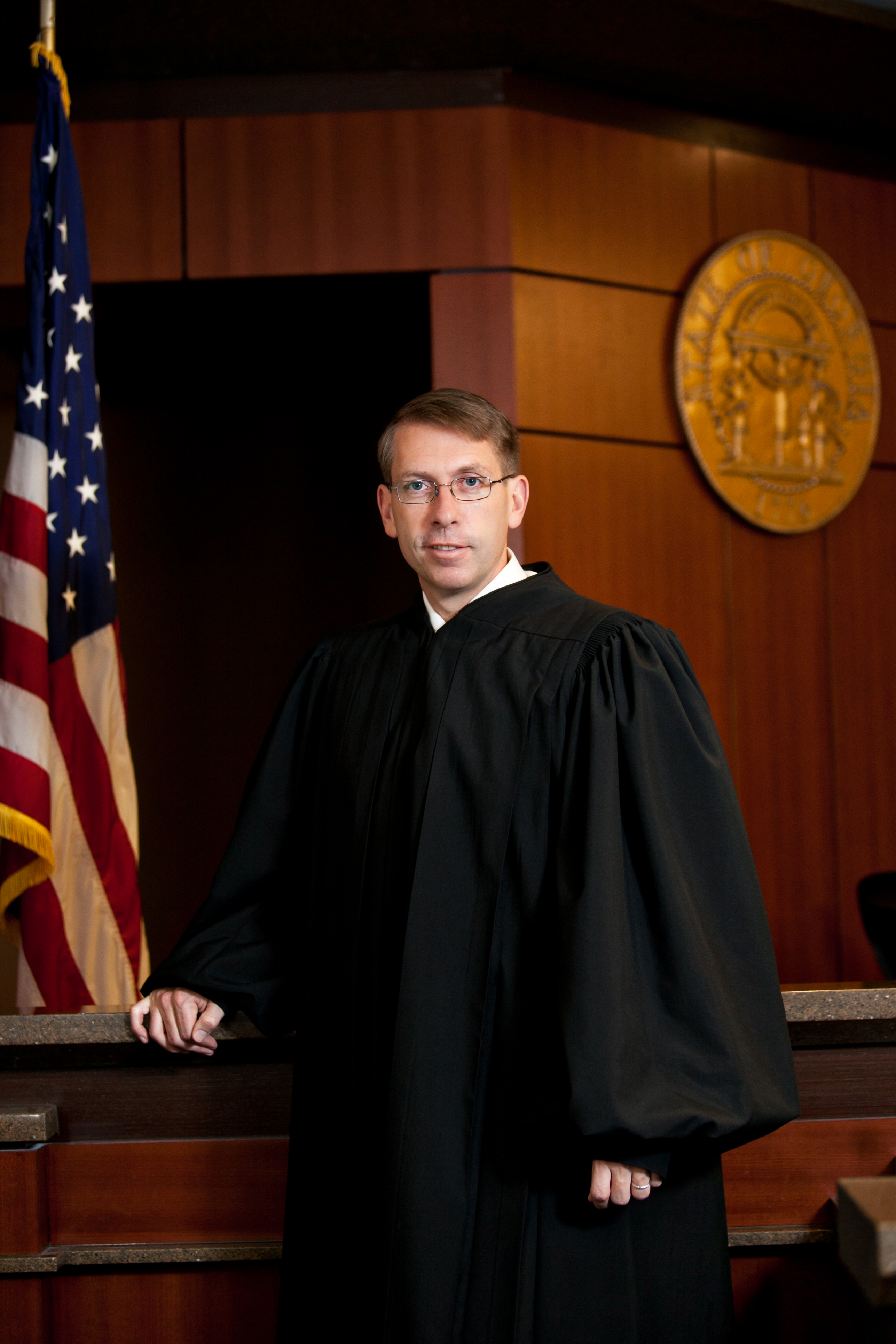 Official Photo - Judge Reuben Green